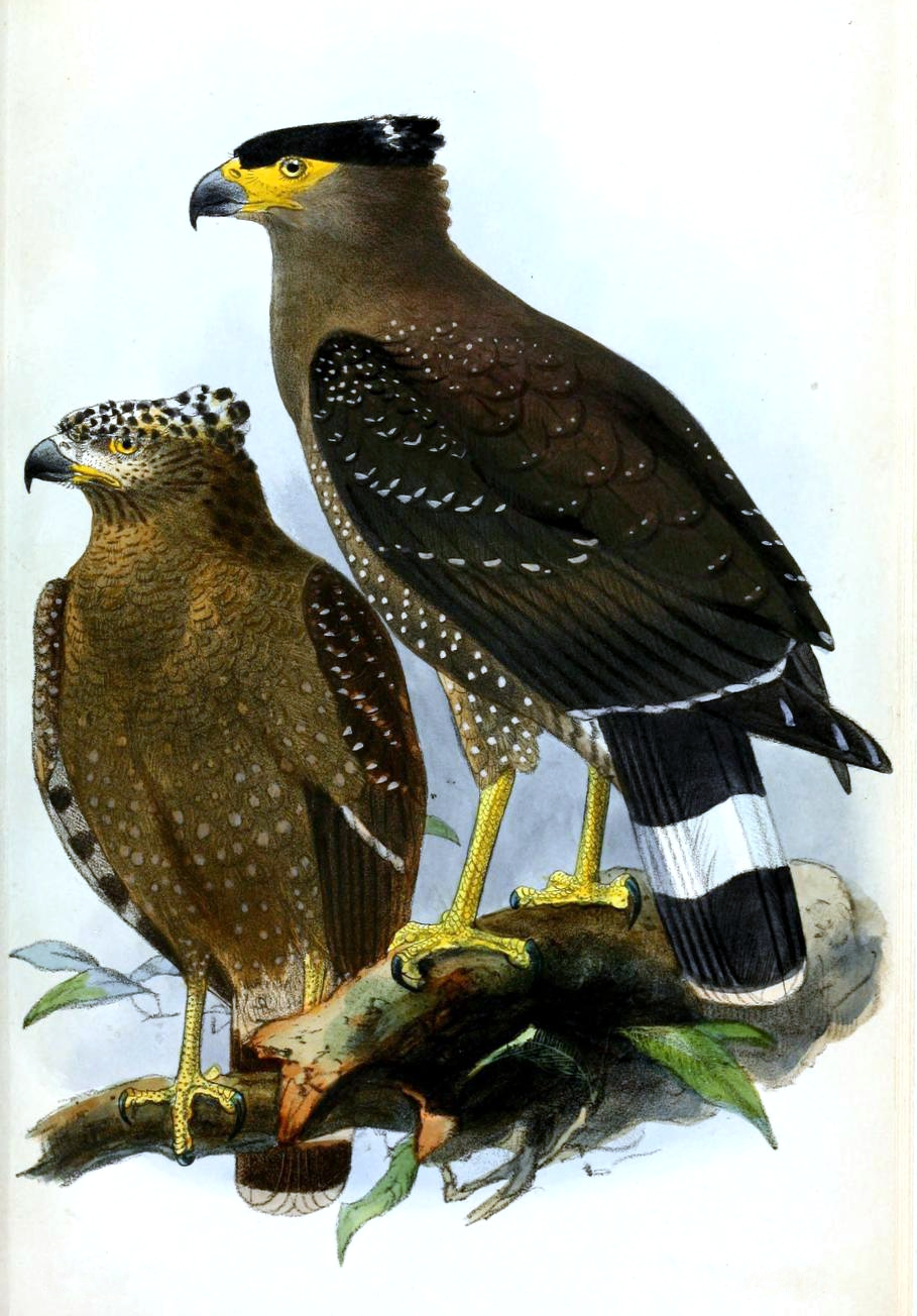 Spilornis pallidus = Spilornis cheela pallidus, Crested Serpent Eagle ssp. from the lowlands of northern Borneo